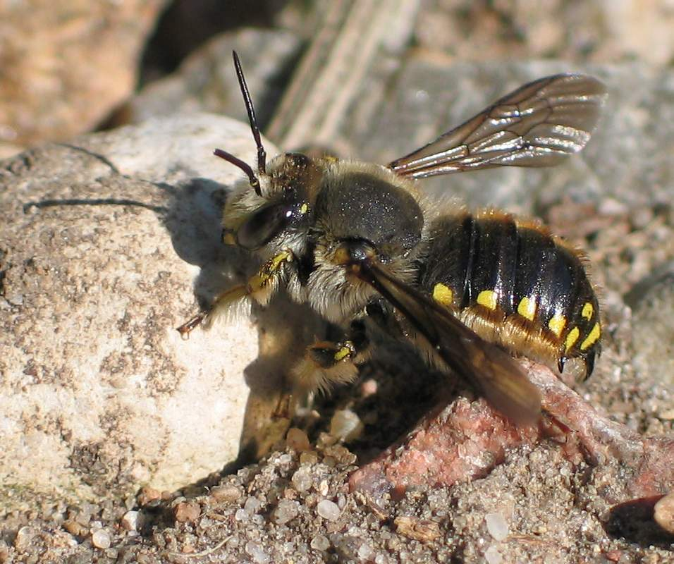 Anthidium manicatum Author: soebe Date: 2004-08-08 Location: Eckernförde, Northern Germany